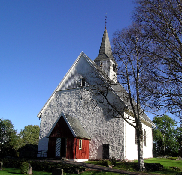 Andebu church, Andebu, Norway. Medieval stone church.